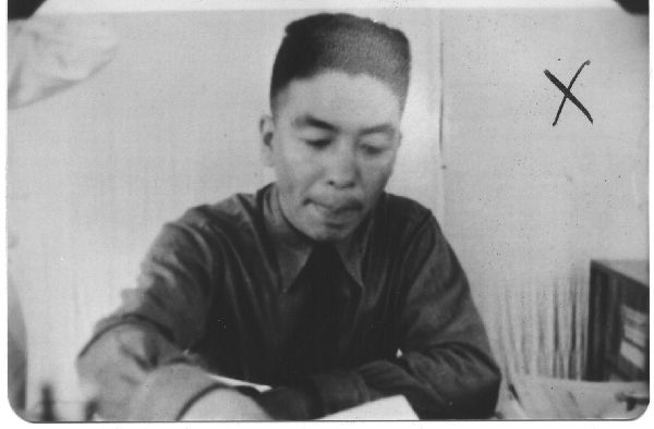 Catalog #: 00471 Subject: The Flying Tigers - China Title: Unknown Repository: San Diego Air and Space Museum Archive